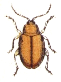 Longitarsus tabidus, from Calwer's Käferbuch, Table 43, Picture 19. Taxonomy was updated to 2008, using mostly the sites Fauna Europaea and BioLib. Please contact Sarefo if the determination is wrong!